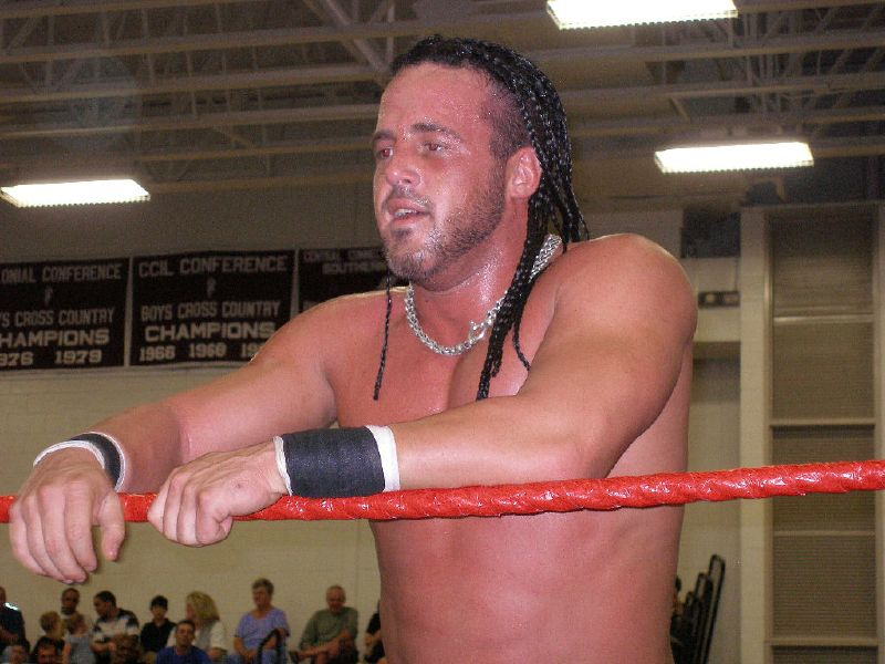 Professional wrestler Joey Mattews (real name Adam Birch) at a Northeast Wrestling show in 2007